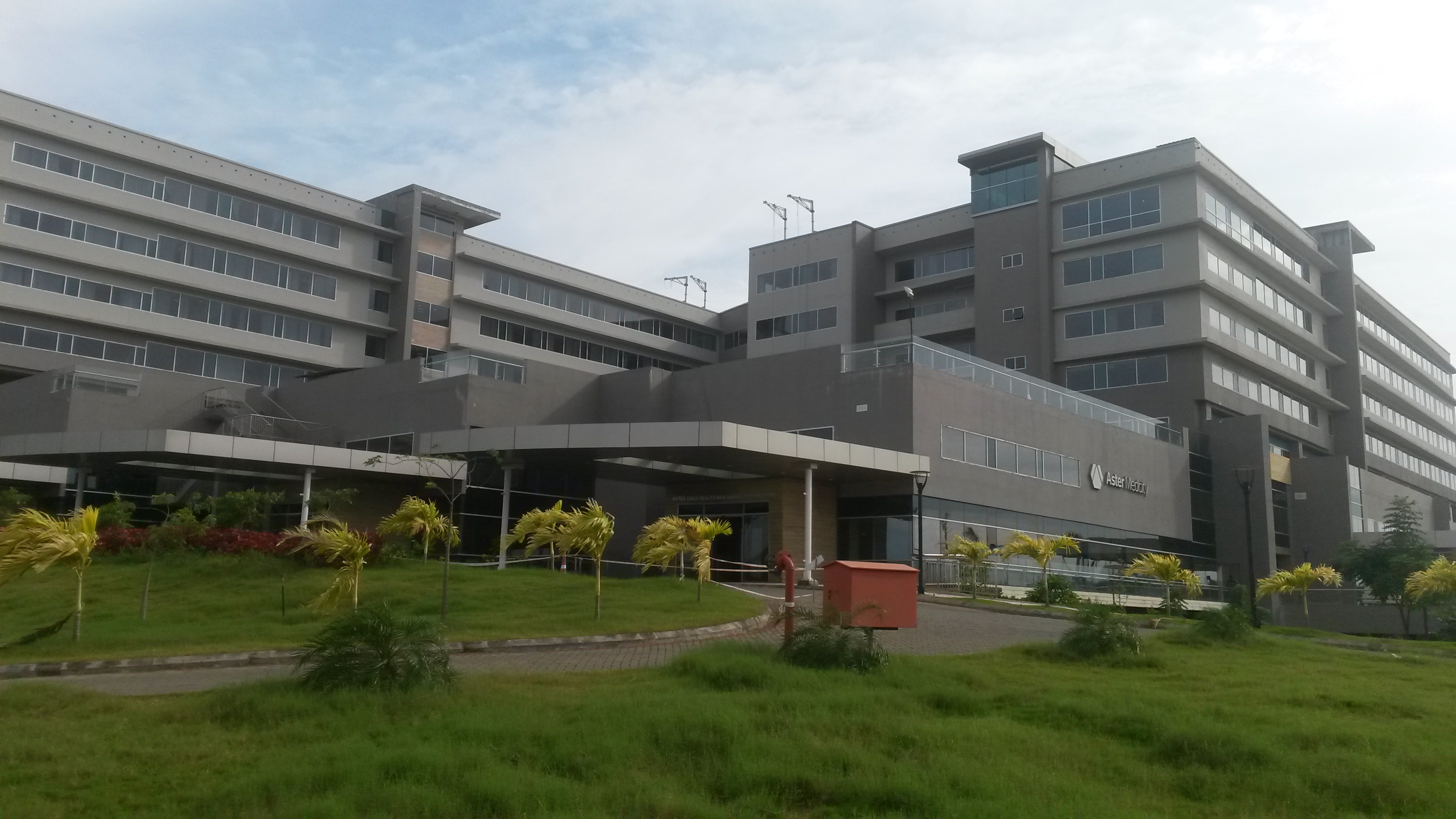 Entrance to the main building